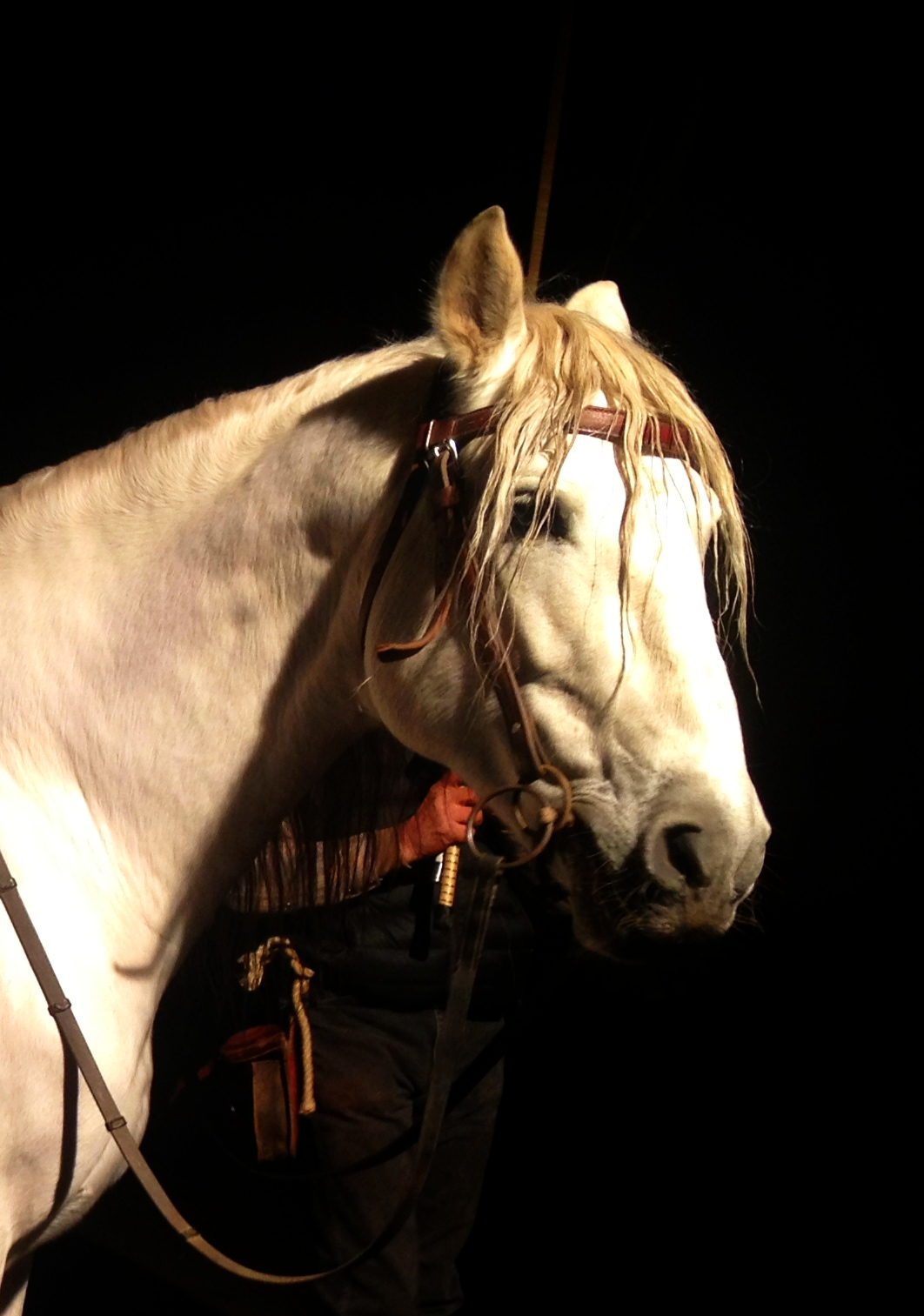 Listo, an Andalusian stallion, photographed in Brooklyn, NY, on the set of Winter's Tale.